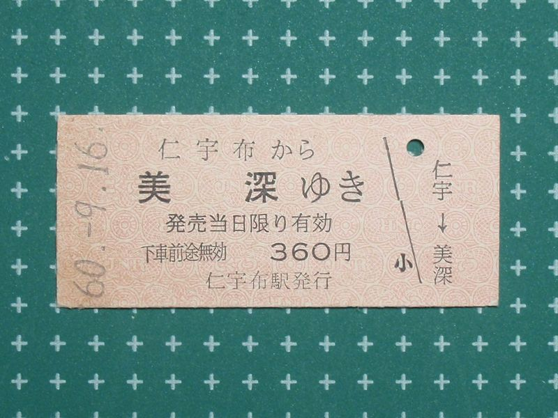 Japanese National Railways ticket from Niupu to Bifuka